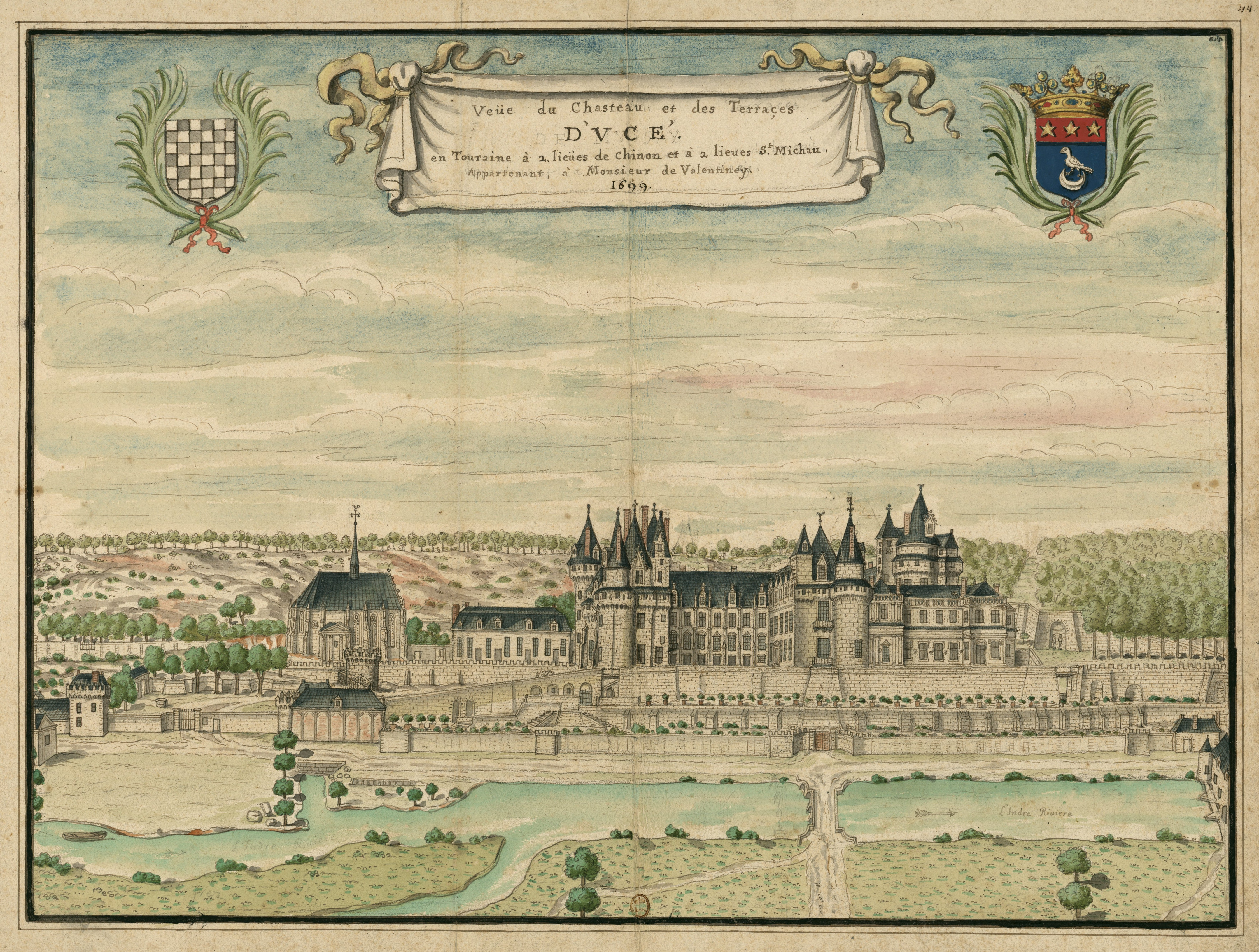 Colored drawing of the Château d'Ussé, Indre-et-Loire, France